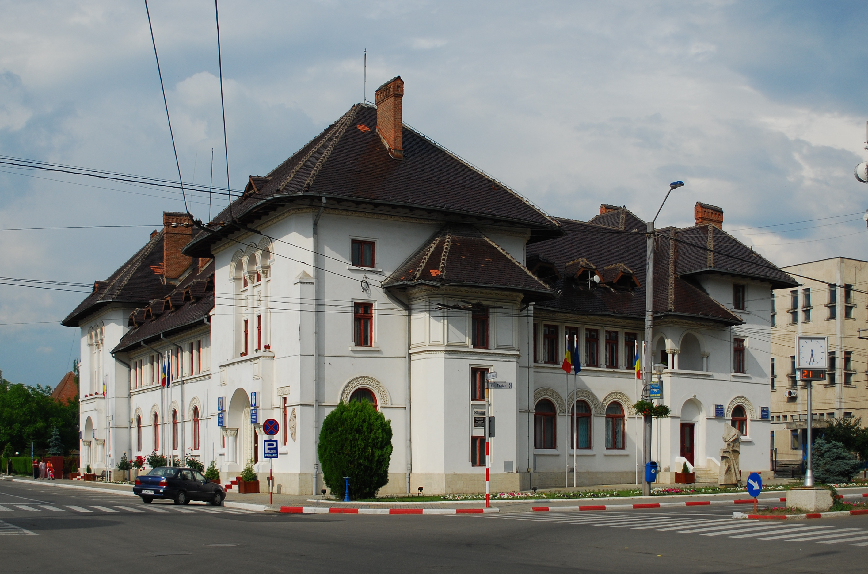 The former dormitory for apprentices of the Trade Cooperative, currently city hall from Târgu Jiu, RomaniaRomână: Fostul cămin de ucenici al Cooperației Meșteșugărești; actualmente primăria din Târgu Jiu, România